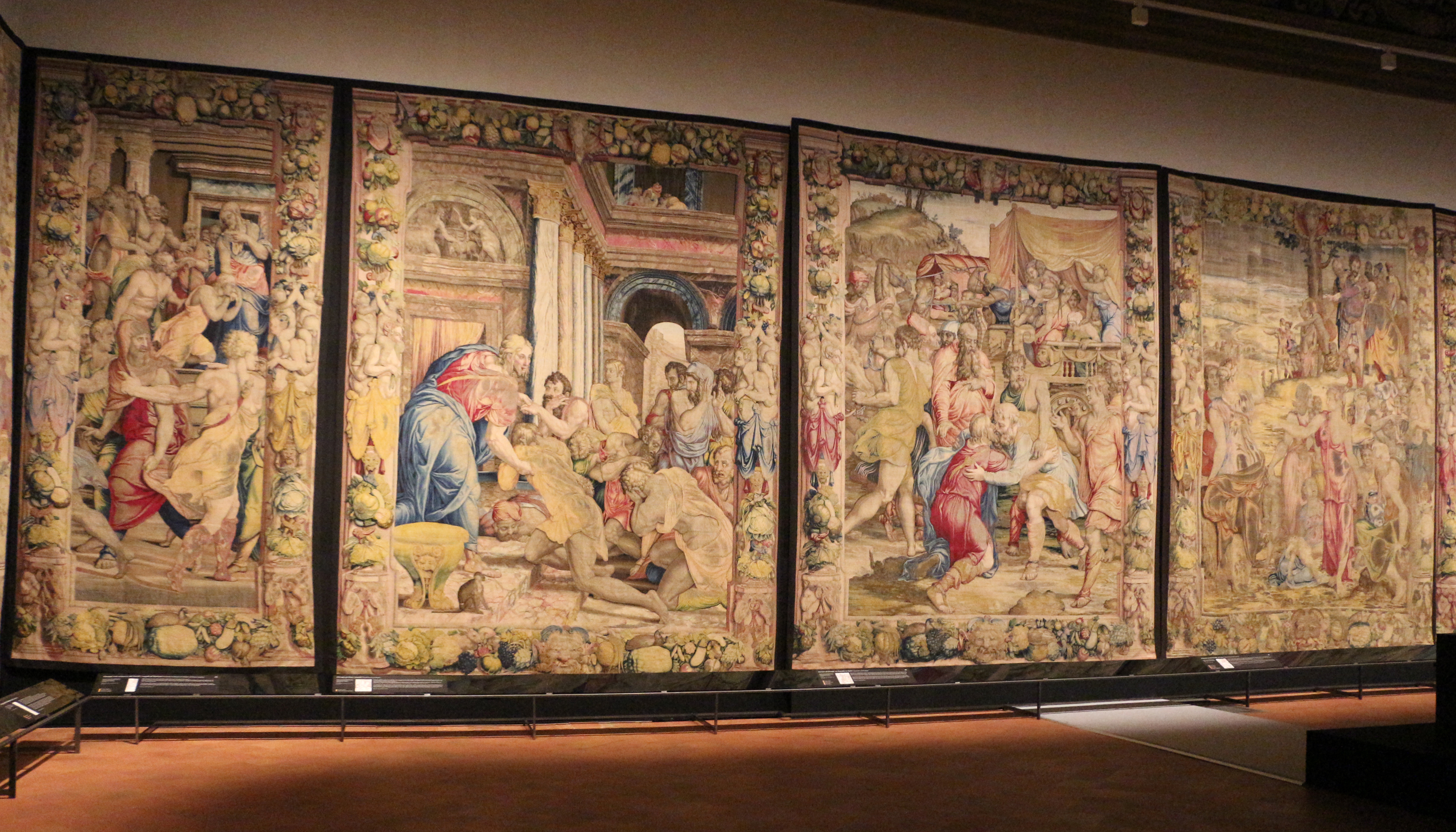 Medicean tapestries of the Stories of Joseph